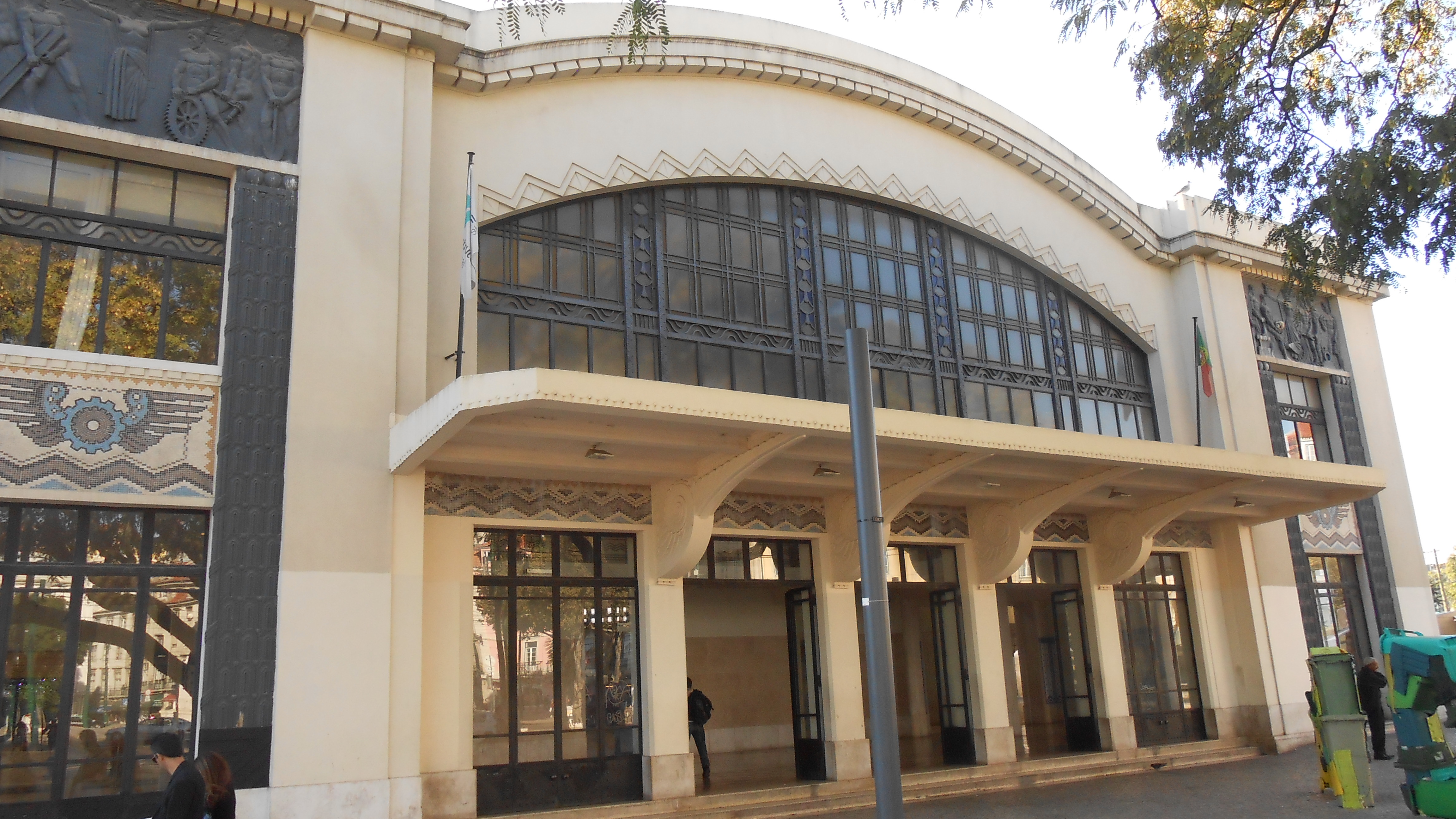 Main entrance to the Cais do Sodré train station.